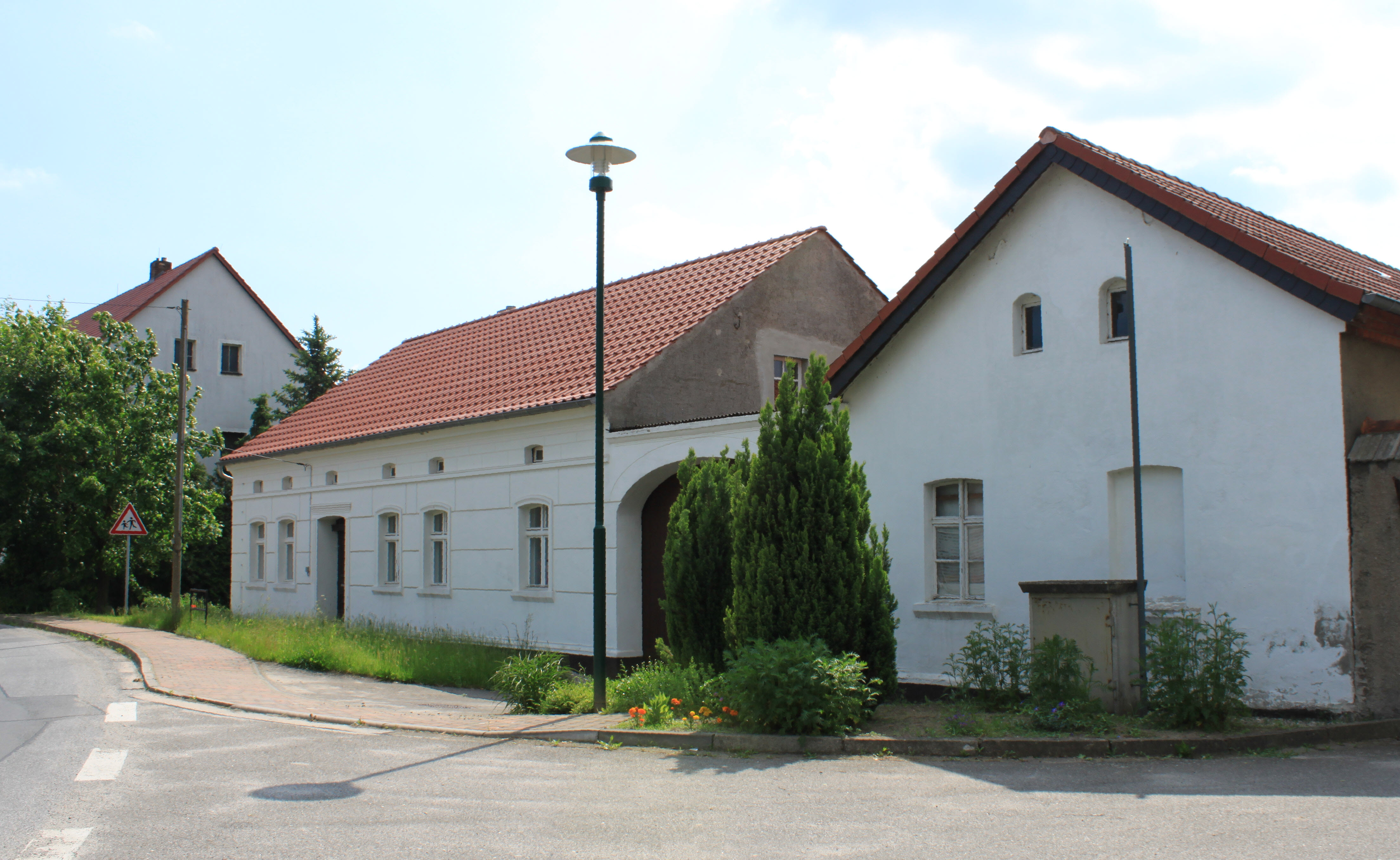 old farm in Hillmersdorf